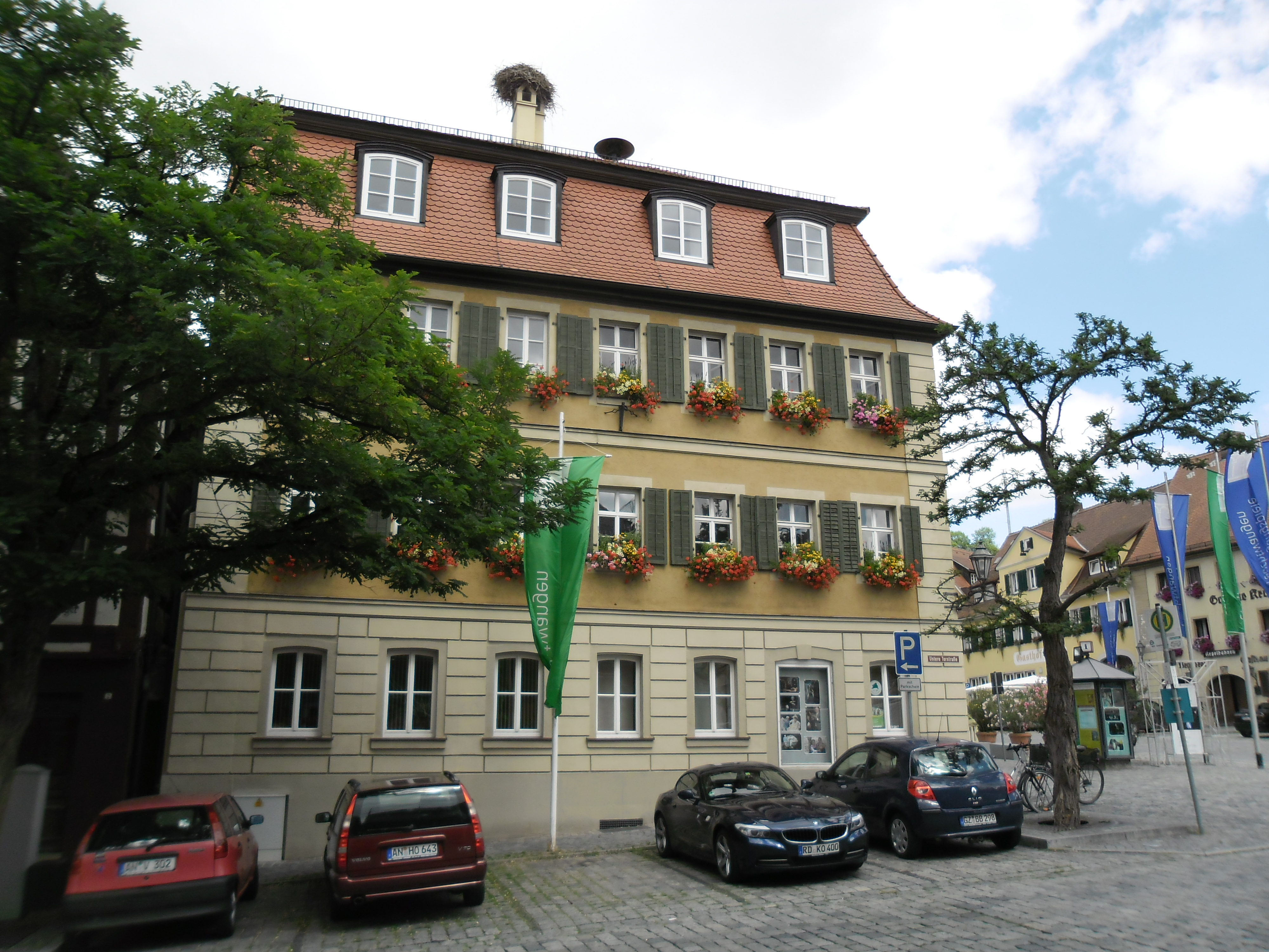 The Old Townhall of Feuchtwangen at the corner market square/Untere Torstraße (Marktplatz 1)